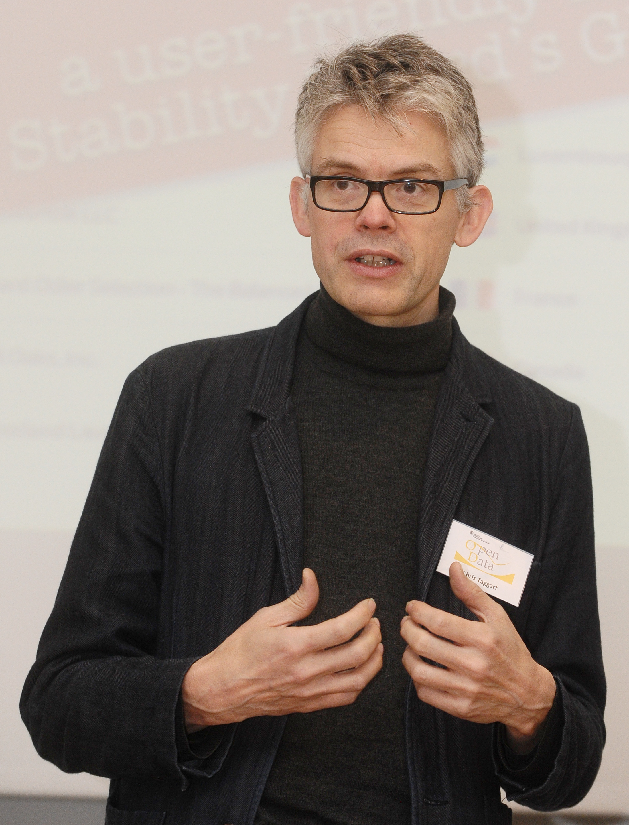 OpenCorporates founder Chris Taggart at the Open Data in Transition conference in Trento.